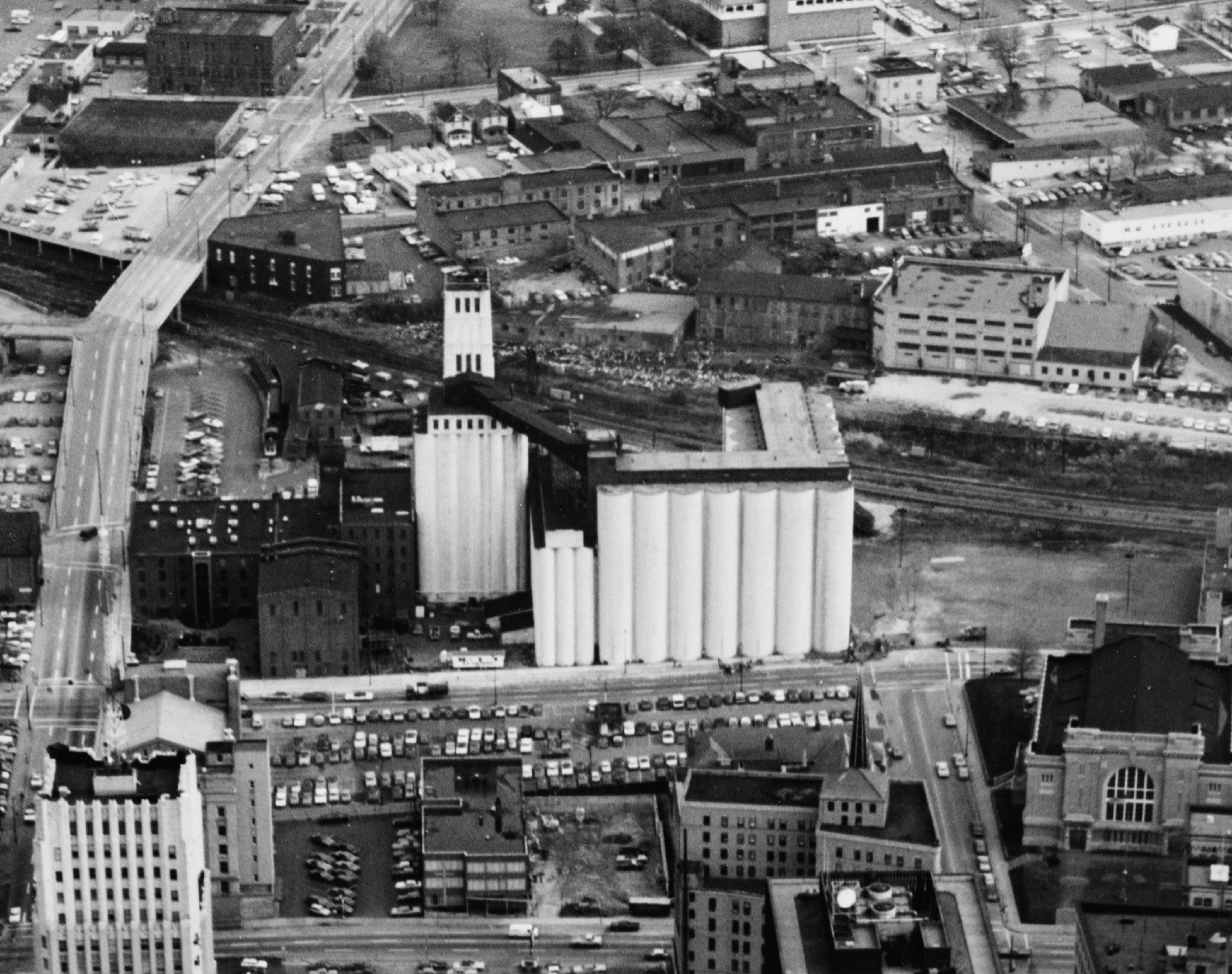 Aerial view of the Akron factory of the Quaker Oats Company, located at 120 E. Mill Street in Akron, Ohio, United States. Built in 1825, it is listed on the National Register of Historic Places.